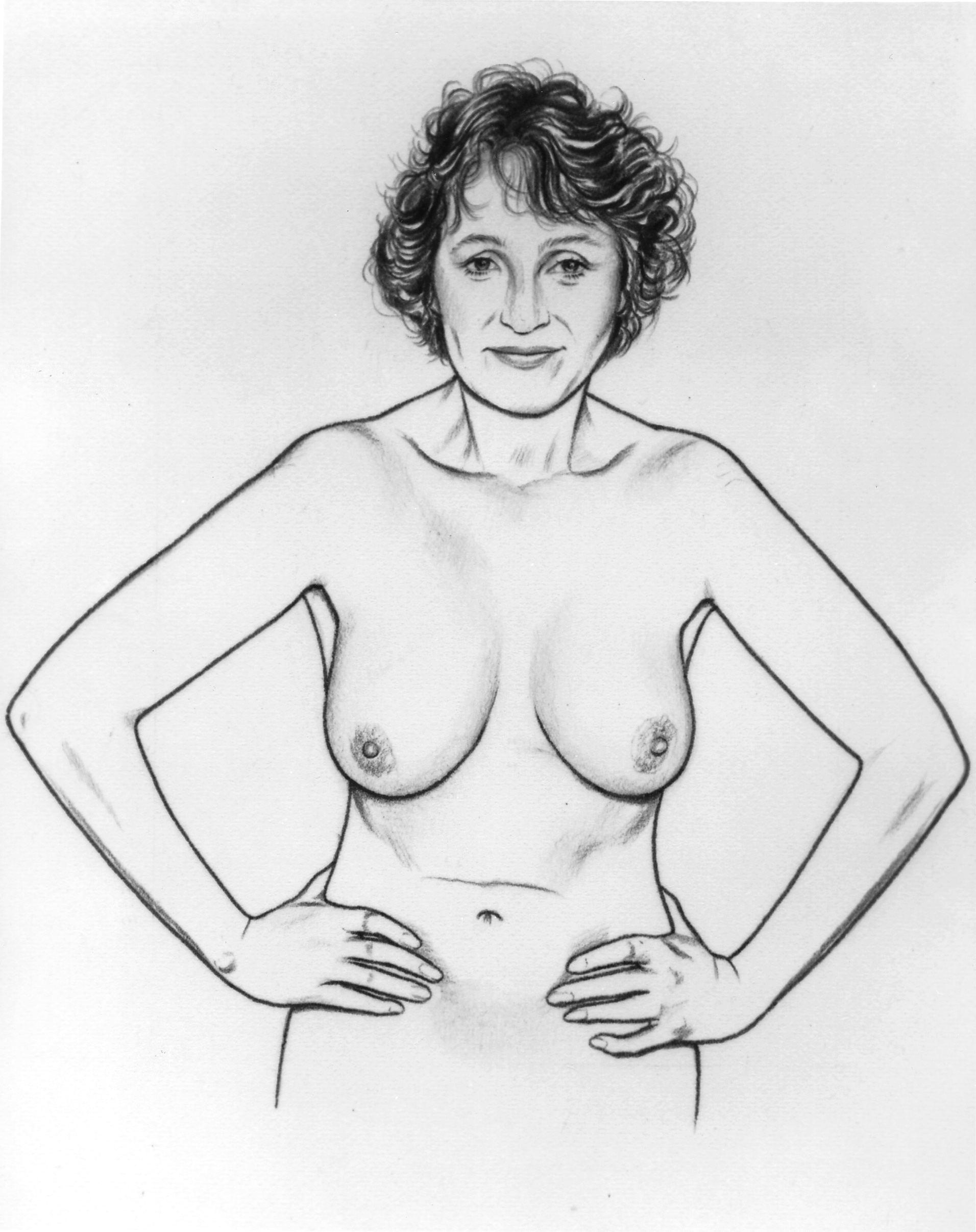 Title Breast Self-Exam Illustration (Series of 6) Description This is the third image in a series of six illustrations showing how to do breast self examination (BSE). Image shows a nude woman with her hands on her hips. See other images: Topics/Categories Cancer Types -- Breast Cancer Historical -- Graphics Test or Procedure -- Physical Exam Type B&W, Medical Illustration Source National Cancer Institute